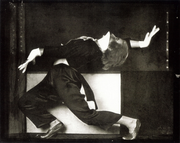 Photography of Hilde Holger